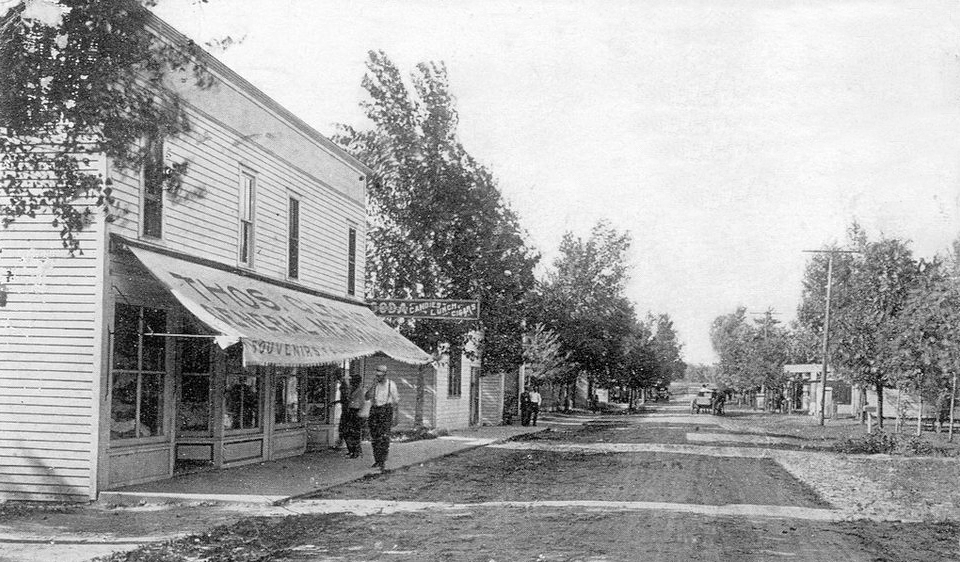 Looking north on Main Street, Winona, Indiana.